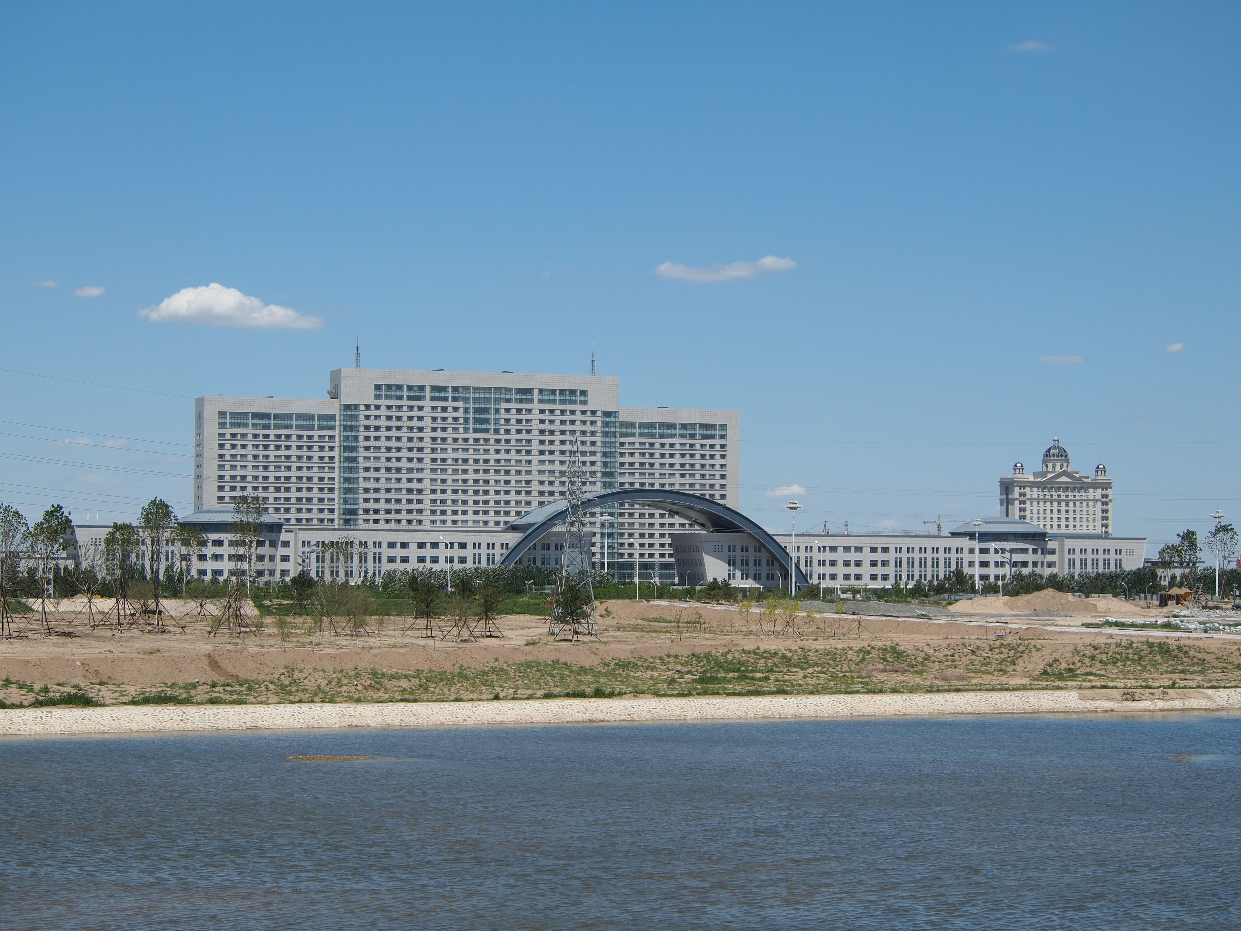 胜利大桥东望 - Look East from Shengli Bridge - 2011.07